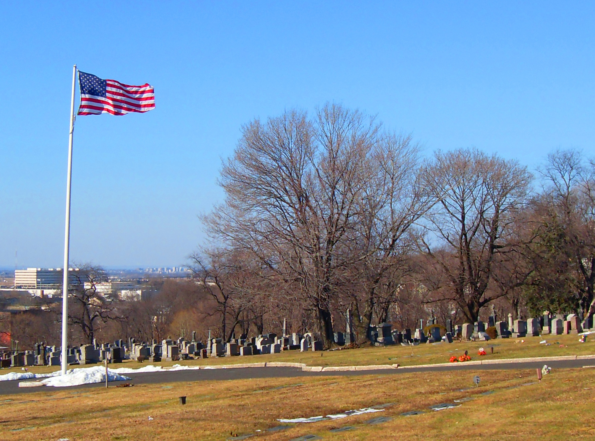 South side of the Grove Church Cemetery